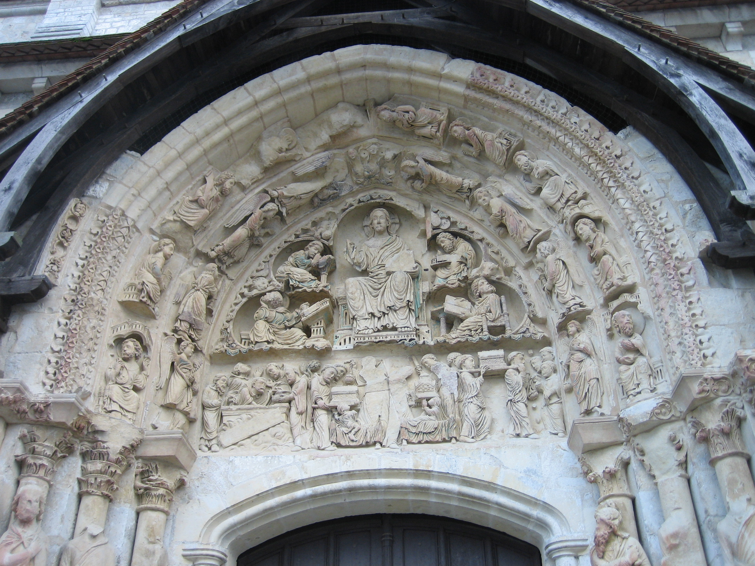 top: Depicted people: Saint John, Jesus, Saint Matthew, Saint Mark and Saint Luke lintel: translation of the relics of Benedict of Nursia